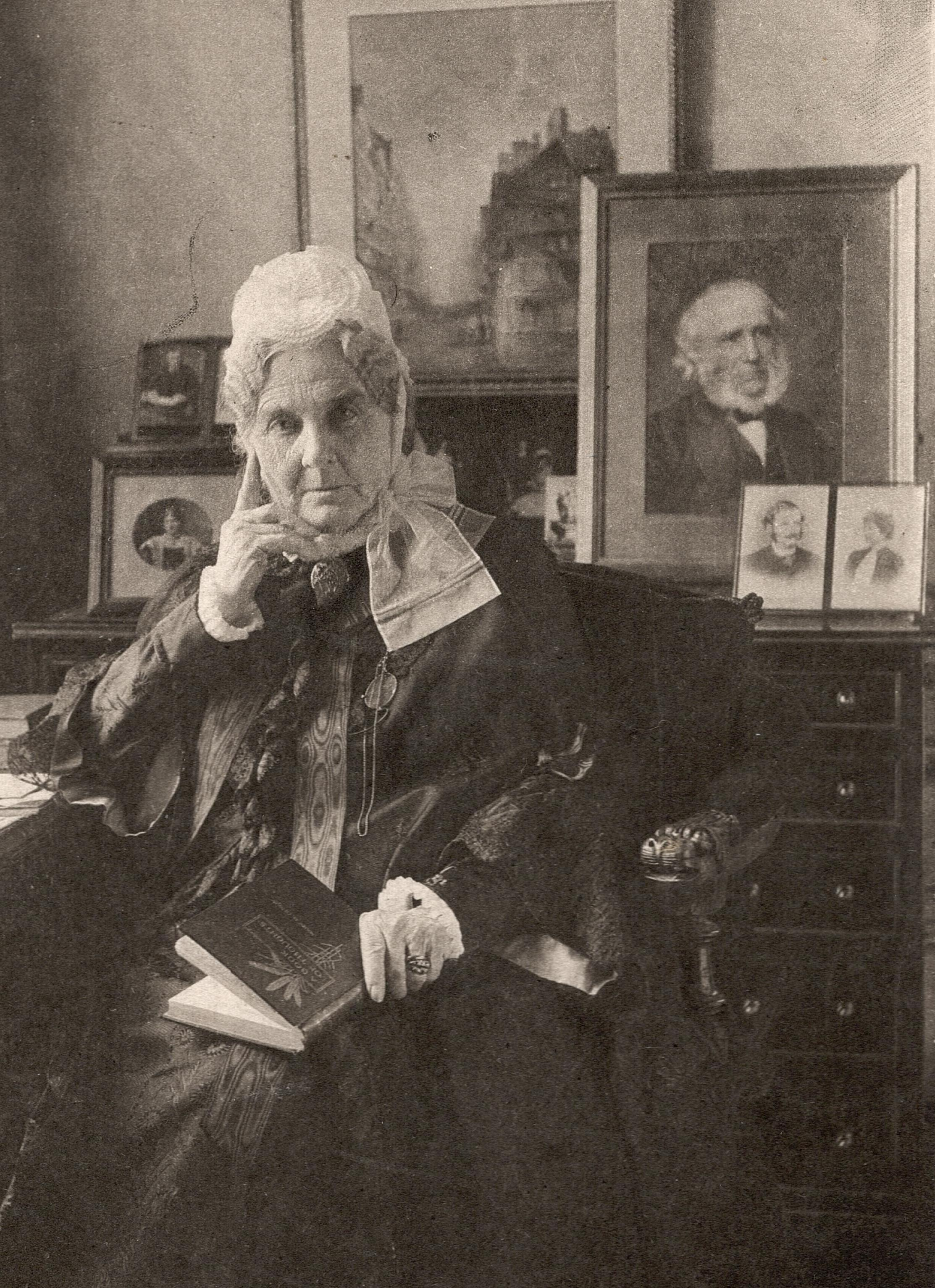 Priscilla Bright Mclaren twl 2009 02 113